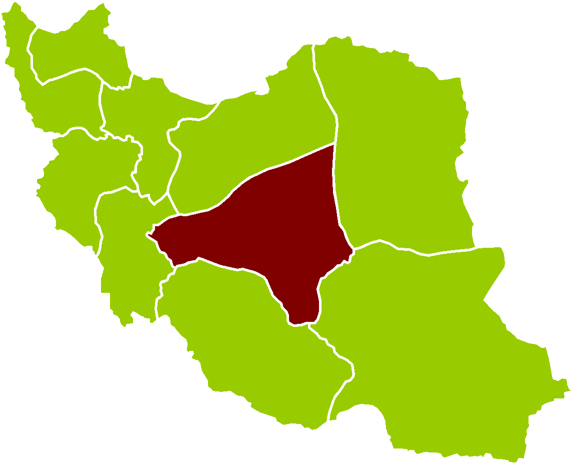 Tenth province of Iran